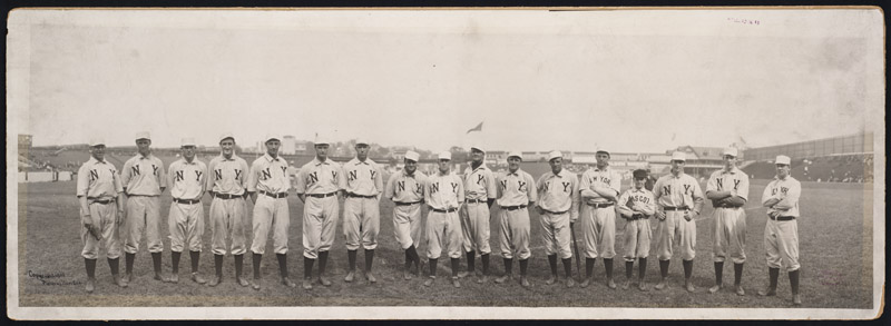 Accession No.: 06_06_000181 Title: New York Giants team picture Creator: Pictorial News Company, N.Y. Date: 1905 Format: photograph Description: Team picture of John McGraw's New York Giants taken before winning the 1905 World Series. Left to right: Sam Mertes, outfielder, William "Boileryard" Clarke, first baseman, George Browne, outfielder, George "Hooks" Wiltse, pitcher, Art Devlin, third baseman, Claude Elliott, pitcher, Dan McGann, first baseman, Mike Donlin, outfielder, Billy Gilbert, second baseman, Luther "Dummy" Taylor, pitcher, Bill Dahlen, shortstop, Sammy Strang, utility player, Joe McGinnity, pitcher, the team mascot, Roger Bresnahan, catcher, Leon "Red" Ames, pitcher, John McGraw, manager. BPL Collection: McGreevey Collection BPL Department: Print Subject: Baseball--History New York Giants (Baseball team)